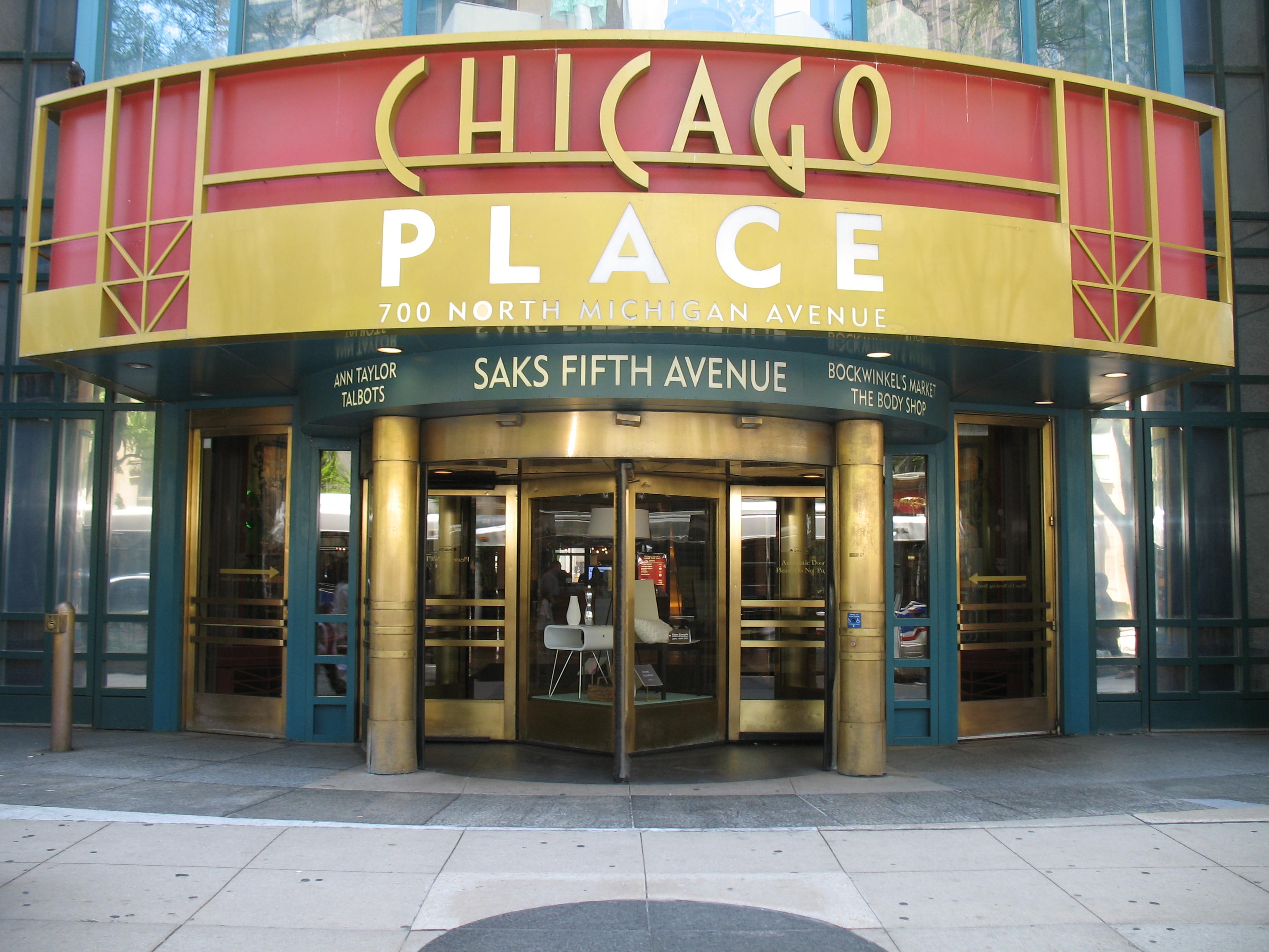 Chicago Place Showcase revolving doors. Chicago Place entrance on the Magnificent Mile. Chicago Place.